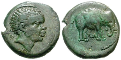 Discovered in Italy's Chiana Valley(Etruria, Arretium ). Circa 208-207 BC. The coin depicts an African on one side(possibly Hannibal) and an Asian elephant on the other. Hannibal's favorite war elephant was an Asiatic elephant named Surus, meaning the Syrian. ^ Wilford, John Noble (September 18, 1984). "THE MYSTERY OF HANNIBAL'S ELEPHANTS". New York Times. Retrieved 14 March 2013. Gabriel, Richard A.; (2011). Hannibal: The Military Biography of Rome's Greatest Enemy. Potomac Books; p 33